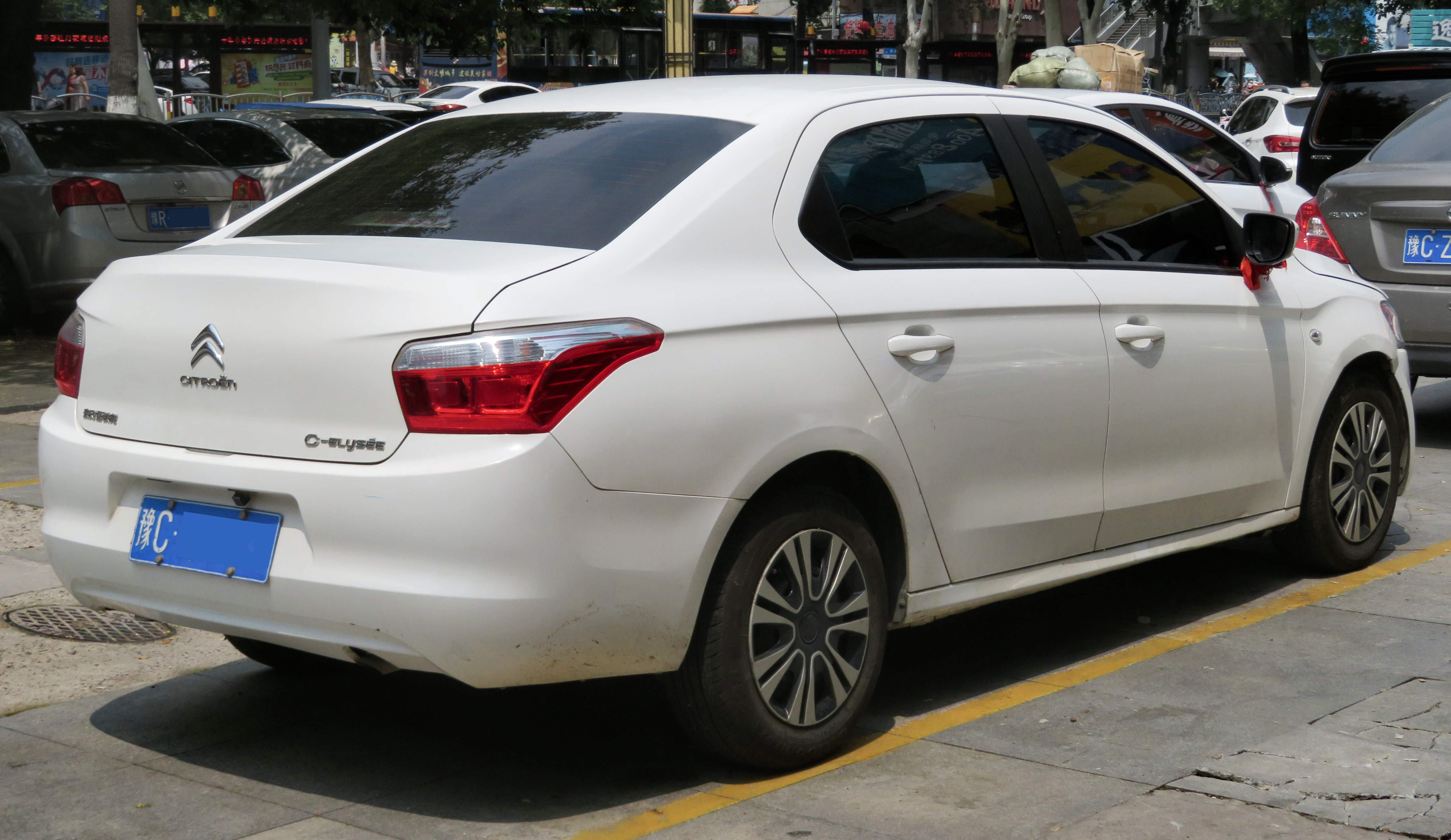 A 2016 Dongfeng-Citroën C-Elysée photographed in Xigong District, Luoyang, Henan province, China